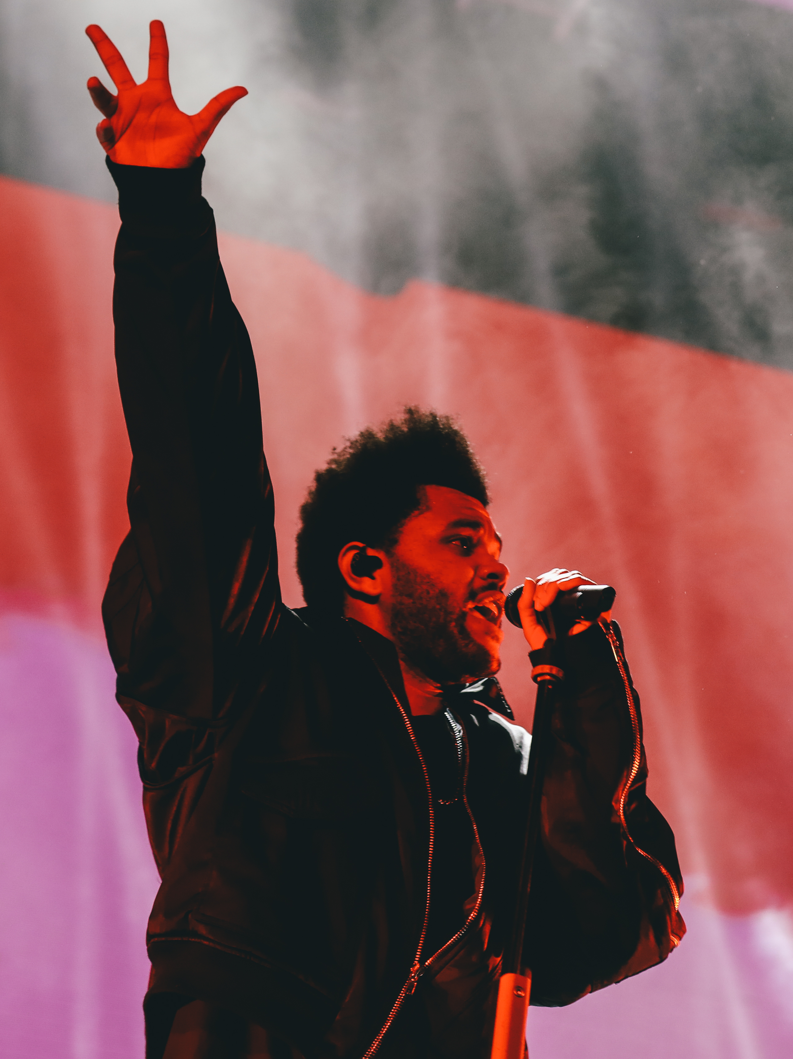 The Weeknd with hand in the air performing live in Hong Kong in November 2018